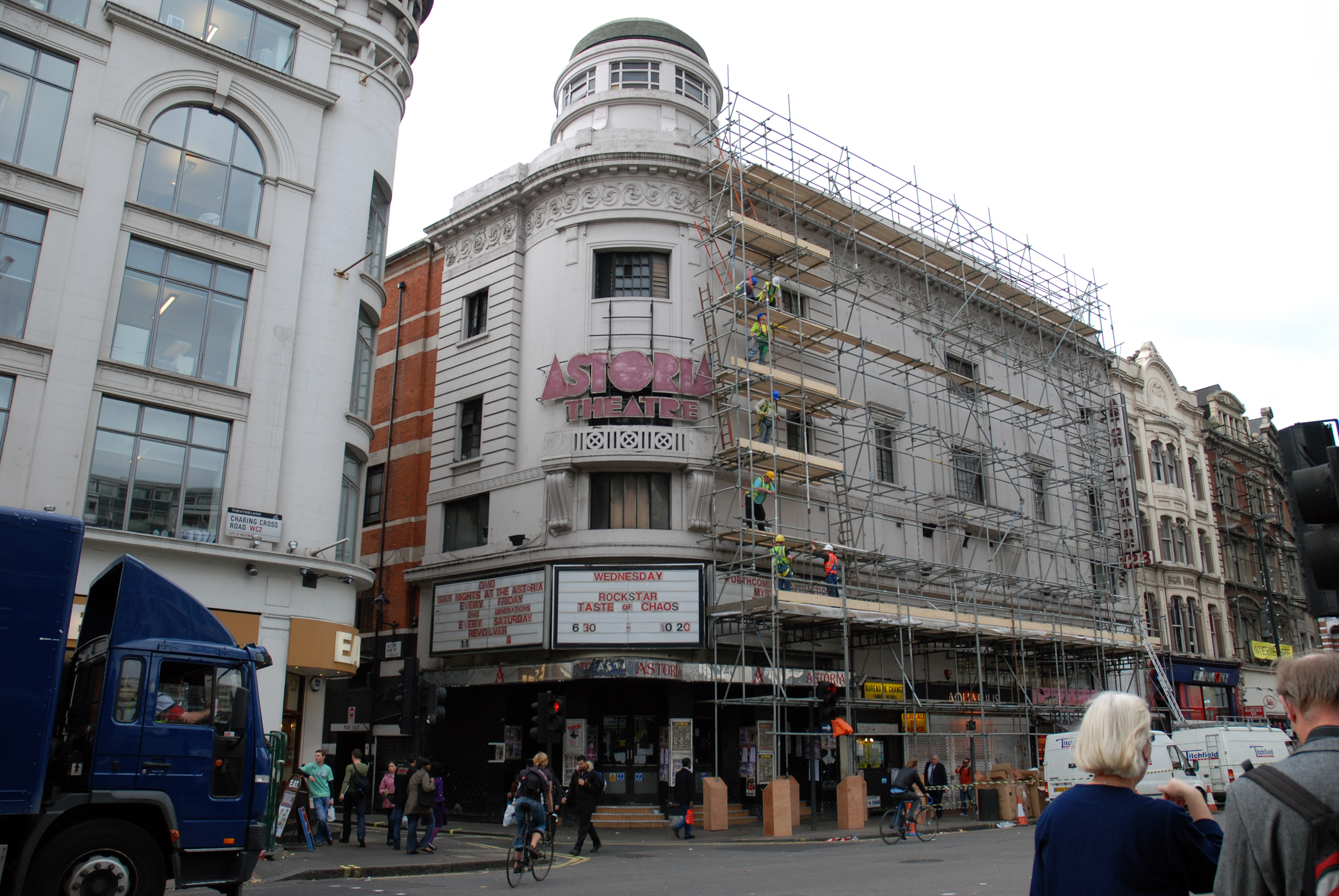 The London Astoria theatre in October 2008, workmen preparing the building for demolition.